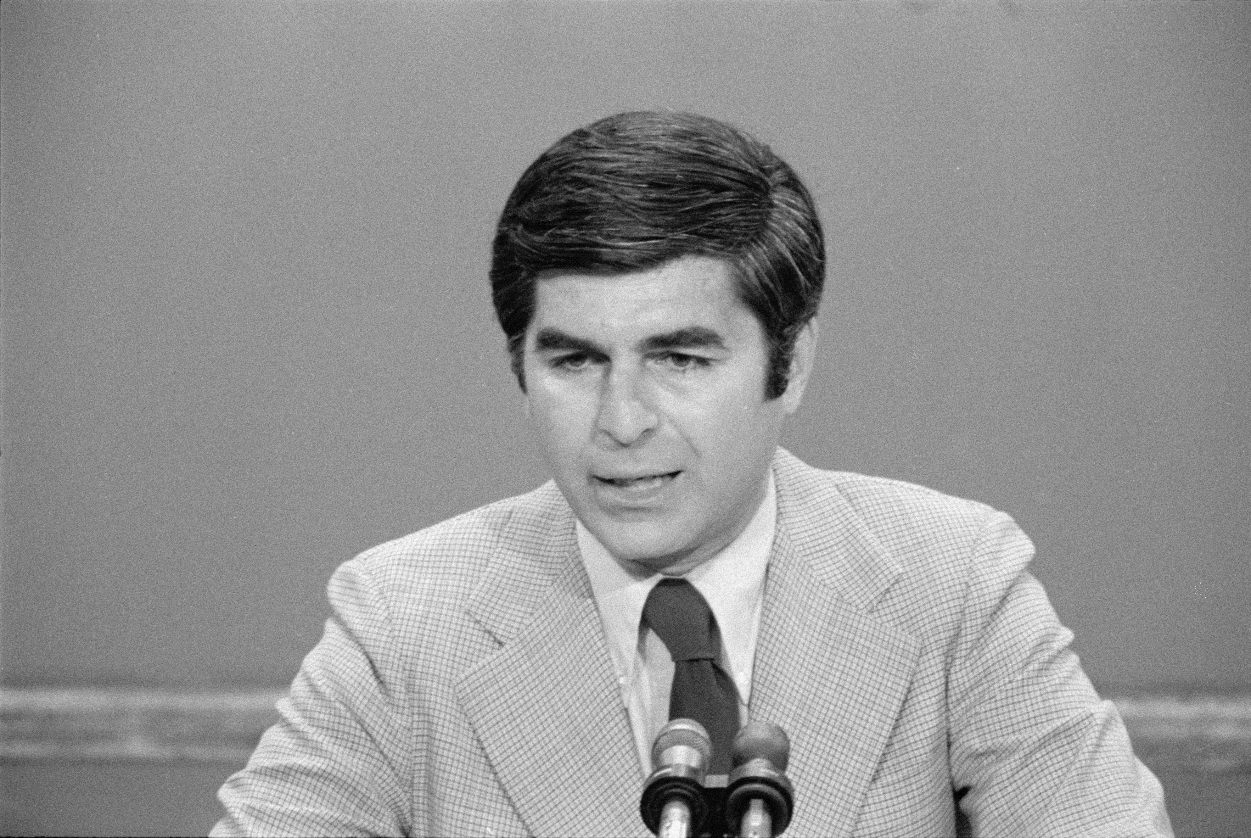 Photograph shows head-and-shoulders portrait of Dukakis speaking into a microphone.